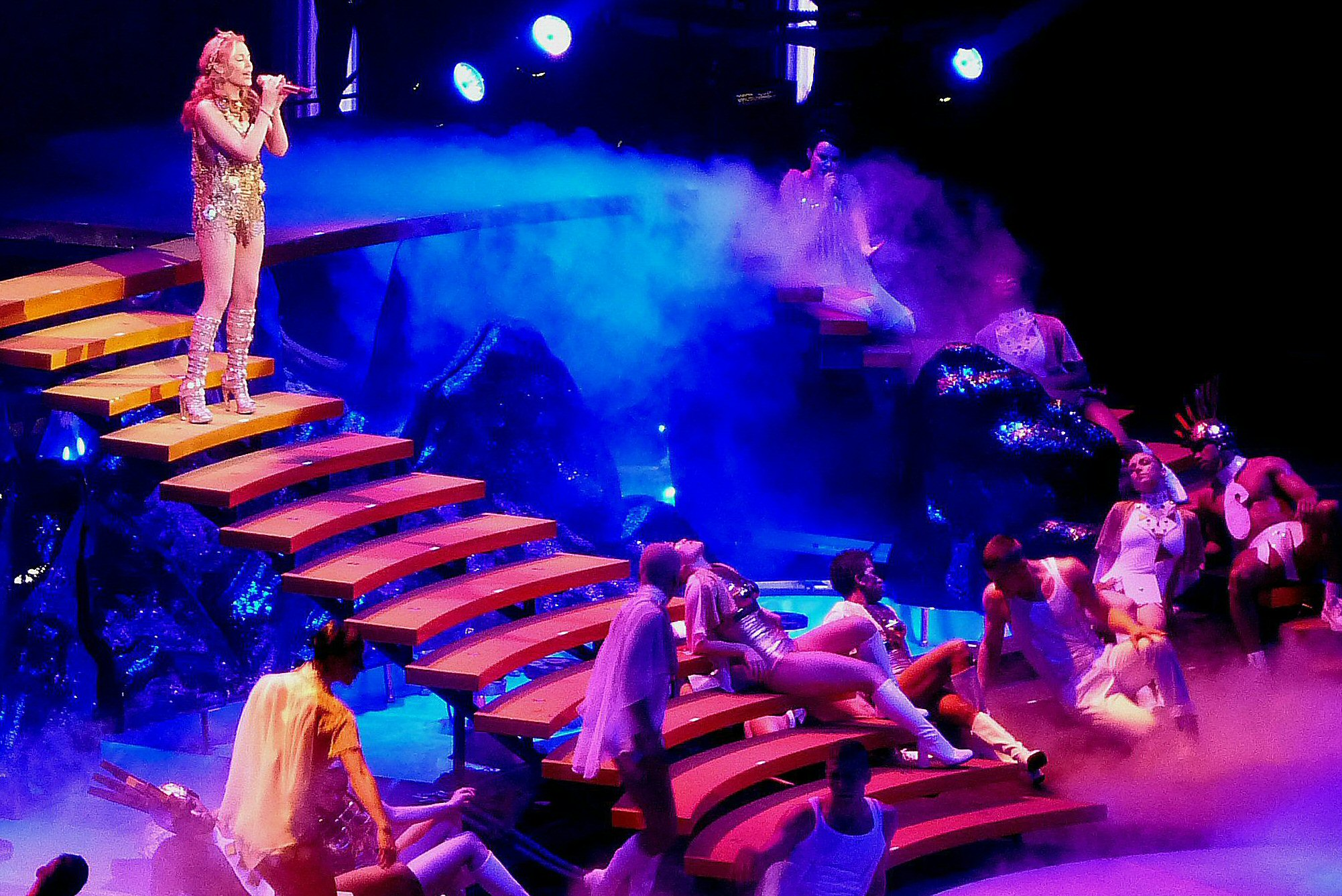 Kylie Minogue at Bercy, Paris ,2011